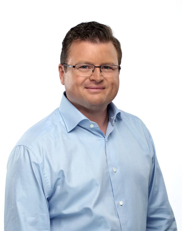 Photo of Vojtěch Munzar